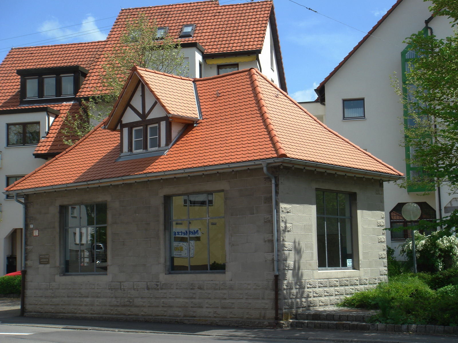 historical pump station Onstmettingen